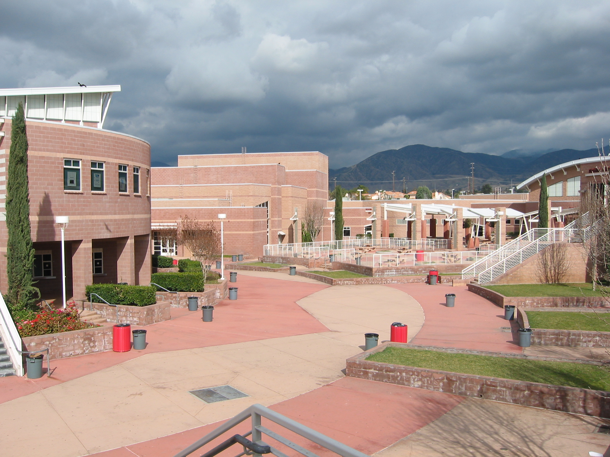 Redlands East Valley High School, view from inside the main campus facing northeast